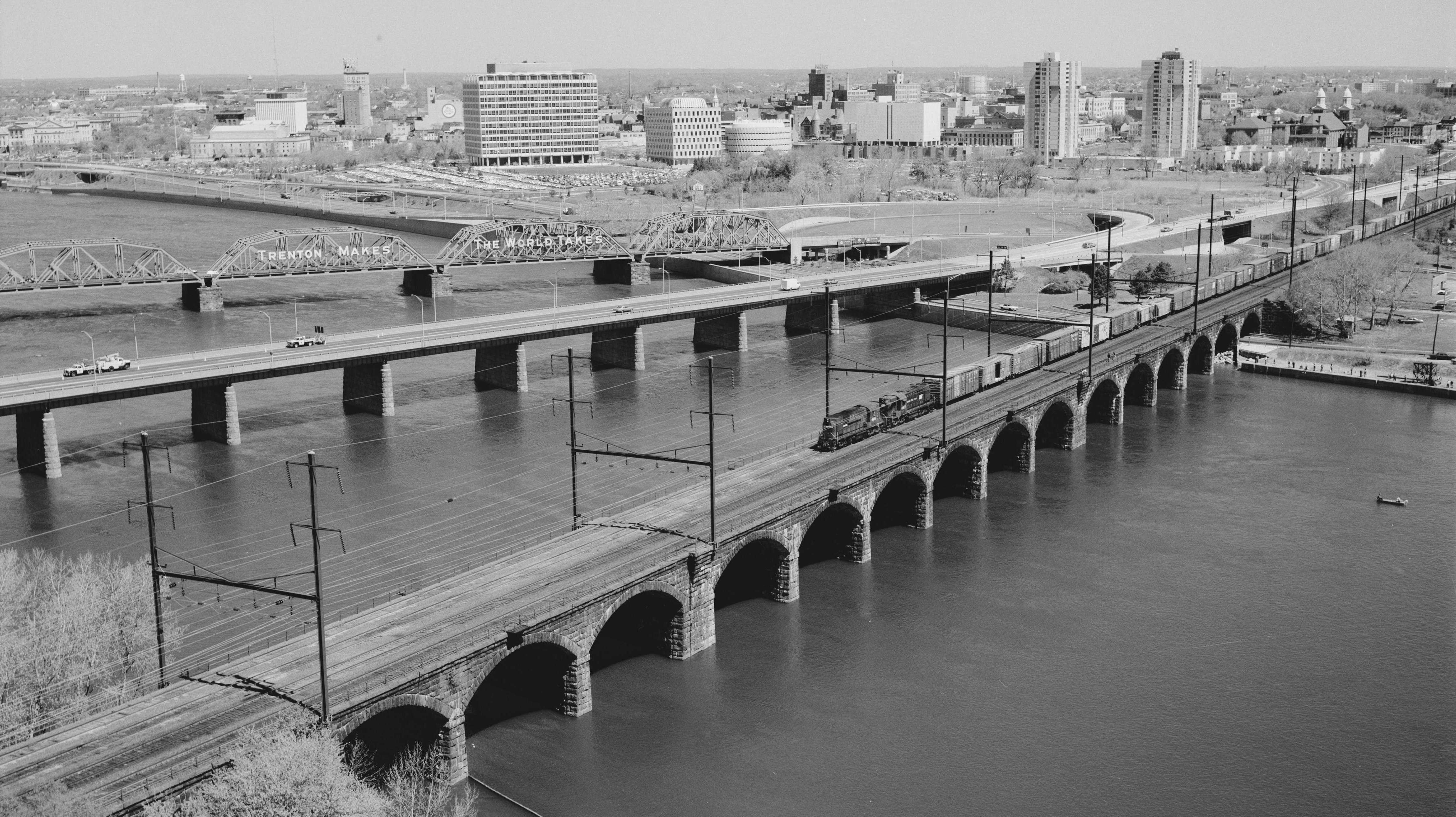 Delaware River Bridge. Morrisville, Bucks Co., PA. Sec. 1401, MP 76.70. - Northeast Railroad Corridor, Amtrak route between Delaware-Pennsylvania and Pennsylvania-New Jersey state lines, Philadelphia, Philadelphia County, PA. Cropped photo.